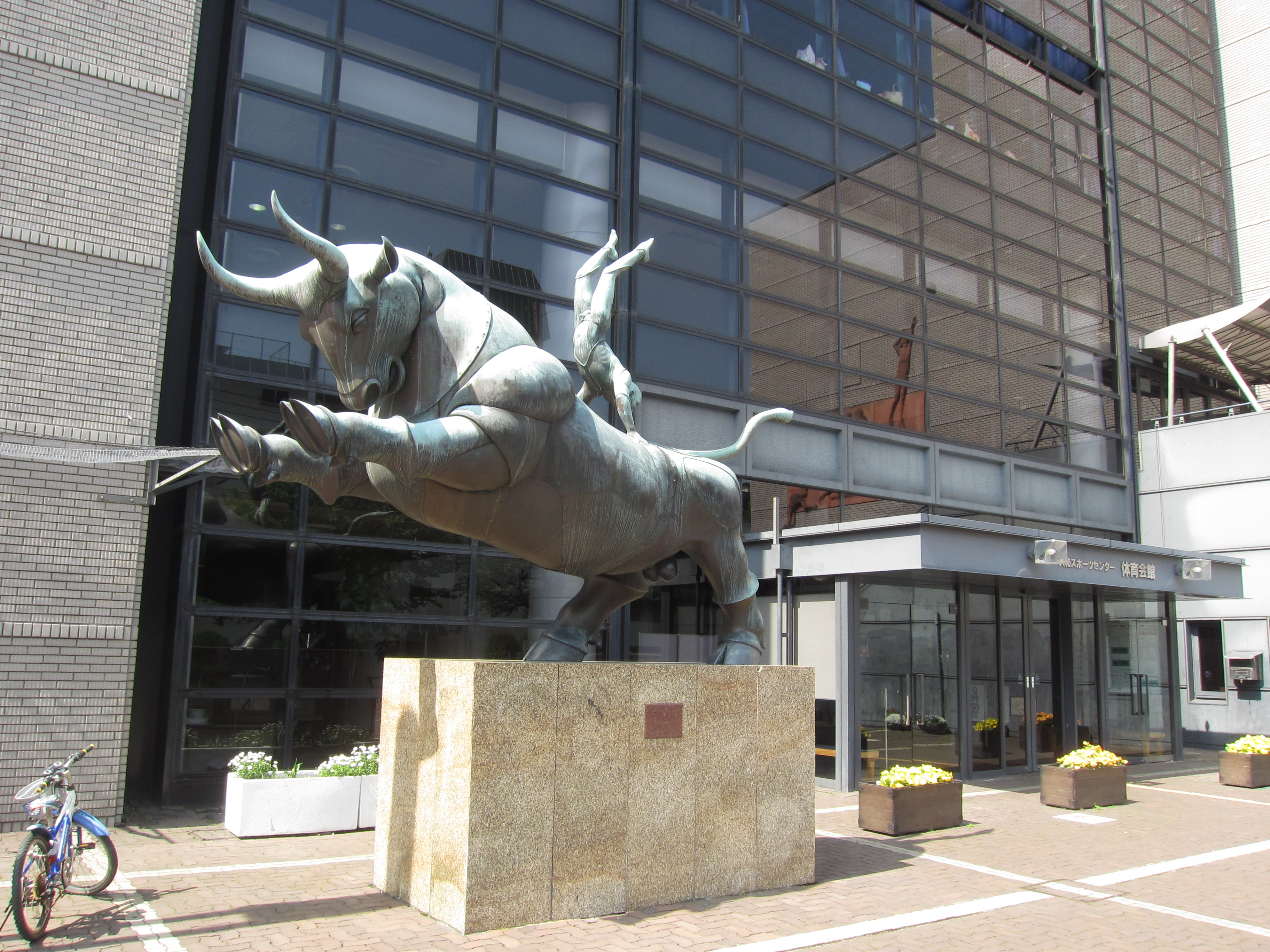 Yamato Sports Center Gymnasium